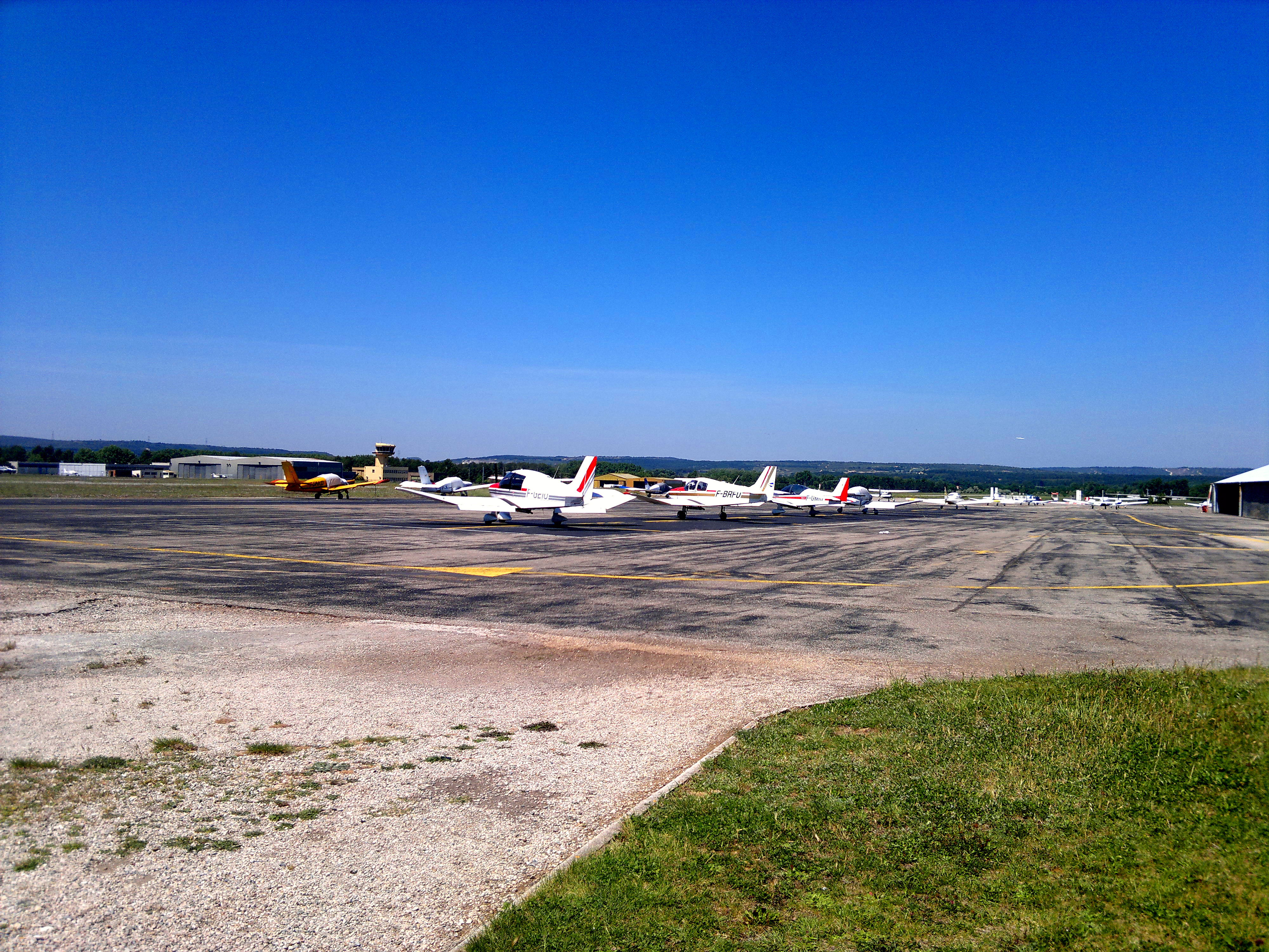 A view of Aix-les-Milles airport.